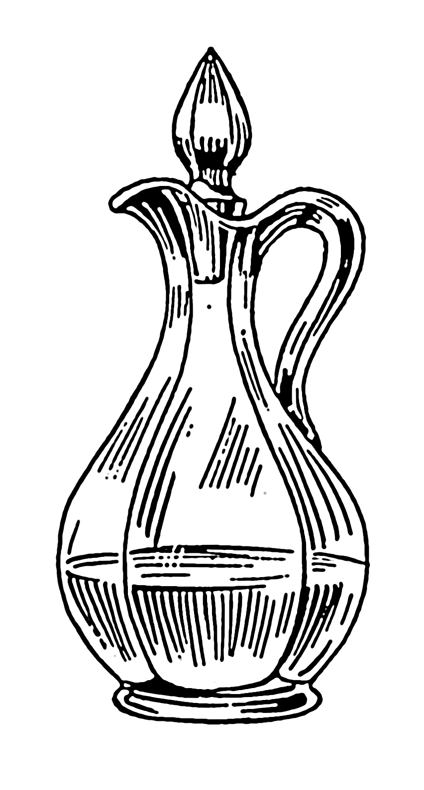 Line art drawing of a cruet.